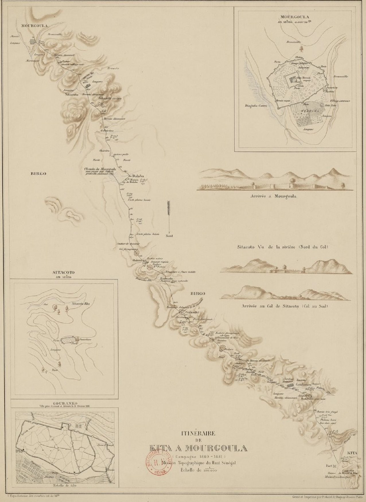 Way from Kita (North, but below in the map) to Mourgoula (South, but above in the map)